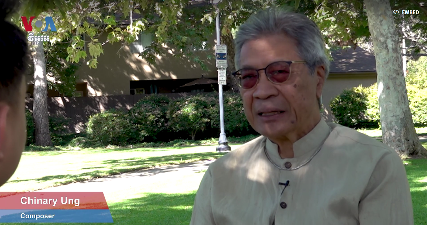 screen capture from the video. Original caption: Dr. Chinary Ung is an internationally-celebrated composer who has recently earned one of the highest honors in the United States, a lifetime membership to the American Academy of Arts and Letters. The 77-year-old, Cambodian-American musician and professor began in May his membership in the 250-person society of architects, artists, composers, and writers. The group administers awards and prizes to "foster, assist, and sustain excellence” in American literature, music, and art. In 1964, Dr. Ung was a high school student in Phnom Penh when he won a scholarship to study clarinet at Manhattan School of Music in New York. Since then, he has found his place at the heart of American freedom and creativity. He says he owes his success to his Cambodian identity and a childhood on rural farms. “It’s the Khmer culture. It’s what I learned from the rice field that I spoke of; what touched me the most. And I’m proud to say that I’m a Cambodian.” A formal induction ceremony in New York will take place in May 2021, delayed by a year because of the COVID-19 pandemic. VOA has recently visited Dr. Ung's San Diego home to talk with him about his award-winning compositions, the Cambodian soul and Khmer culture, and what it means to pursue the art.